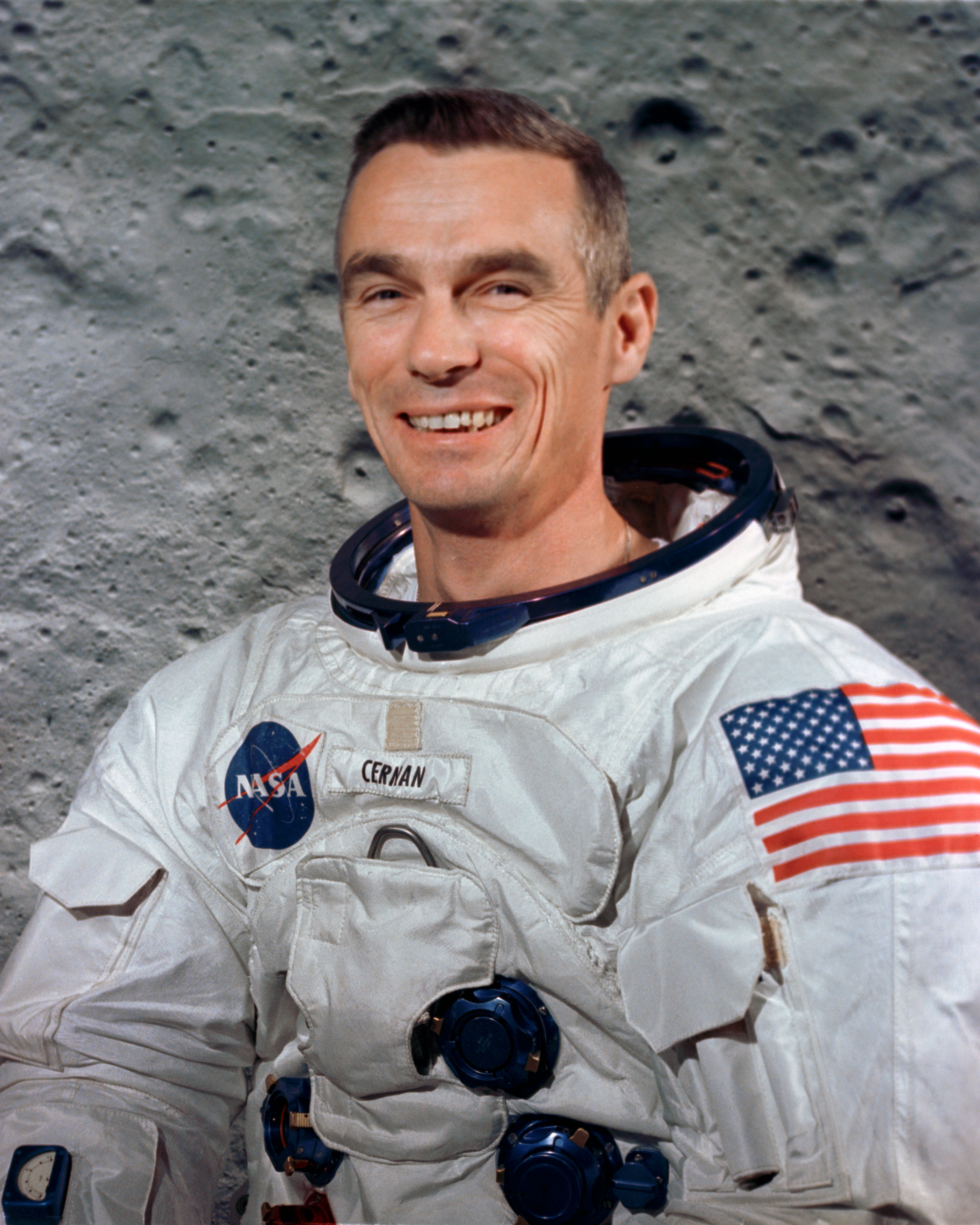 S69-32614 (April 1969) - Astronaut Eugene A. Cernan, prime crew lunar module pilot of the Apollo 10 lunar orbit mission.